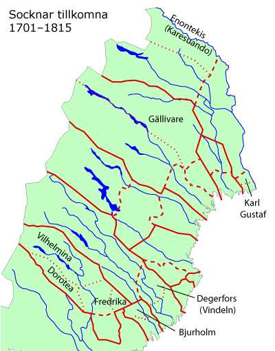 Parishes in northern Sweden (Västerbotten and Norrbotten counties), created between the years 1701 and 1815. Borders are approximative.